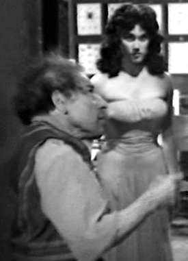 John George playing a manservant in Mesa of Lost Women; Tandra Quinn in the background.